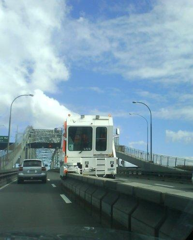 The barrier transfer machine (BTM) on the Auckland Harbour Bridge in Auckland, New Zealand. The BTM is moving the barrier at around 2:30pm for the afternoon/evening peak traffic flow. This is one of the two barrier transfer machines which operate on the Auckland Harbour Bridge. In March 2009, these two machines replaced the original two, which had been moving the barrier everyday since it was installed in 1990; which lasted four times their original design life of five years. The barrier was also replaced.